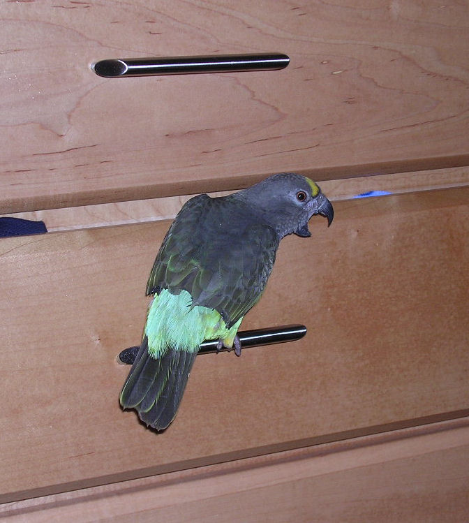 Meyer's Parrot pet parrot. It wing feathers have been clipped and the bird is clinging onto a draw handle. It looks anxious, and it would probably fly to a safer perch if it could.